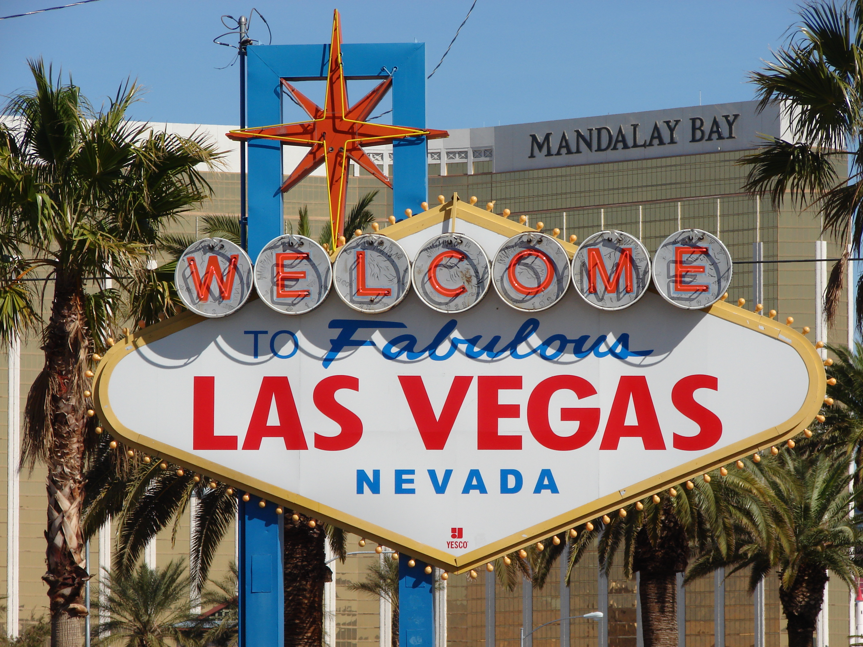 Another photo of the Welcome to Fabulous Las Vegas sign in south Las Vegas, Nevada